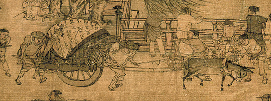 Close-up detail of the Chinese cityscape handscroll Along the River During Qingming Festival, ink and colors on silk, 25.5 × 525 cm.